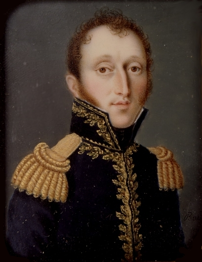 Portrait of Aaron Hart, a businessman in Lower Canada, and one of the first Jews to settle in Canada. He is considered the father of Canadian Jewry.